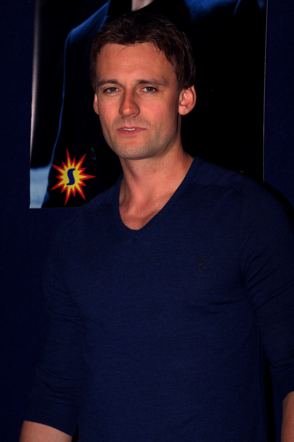 Callum Blue at Supernova Pop Culture Expo 2012, Sydney, Australia